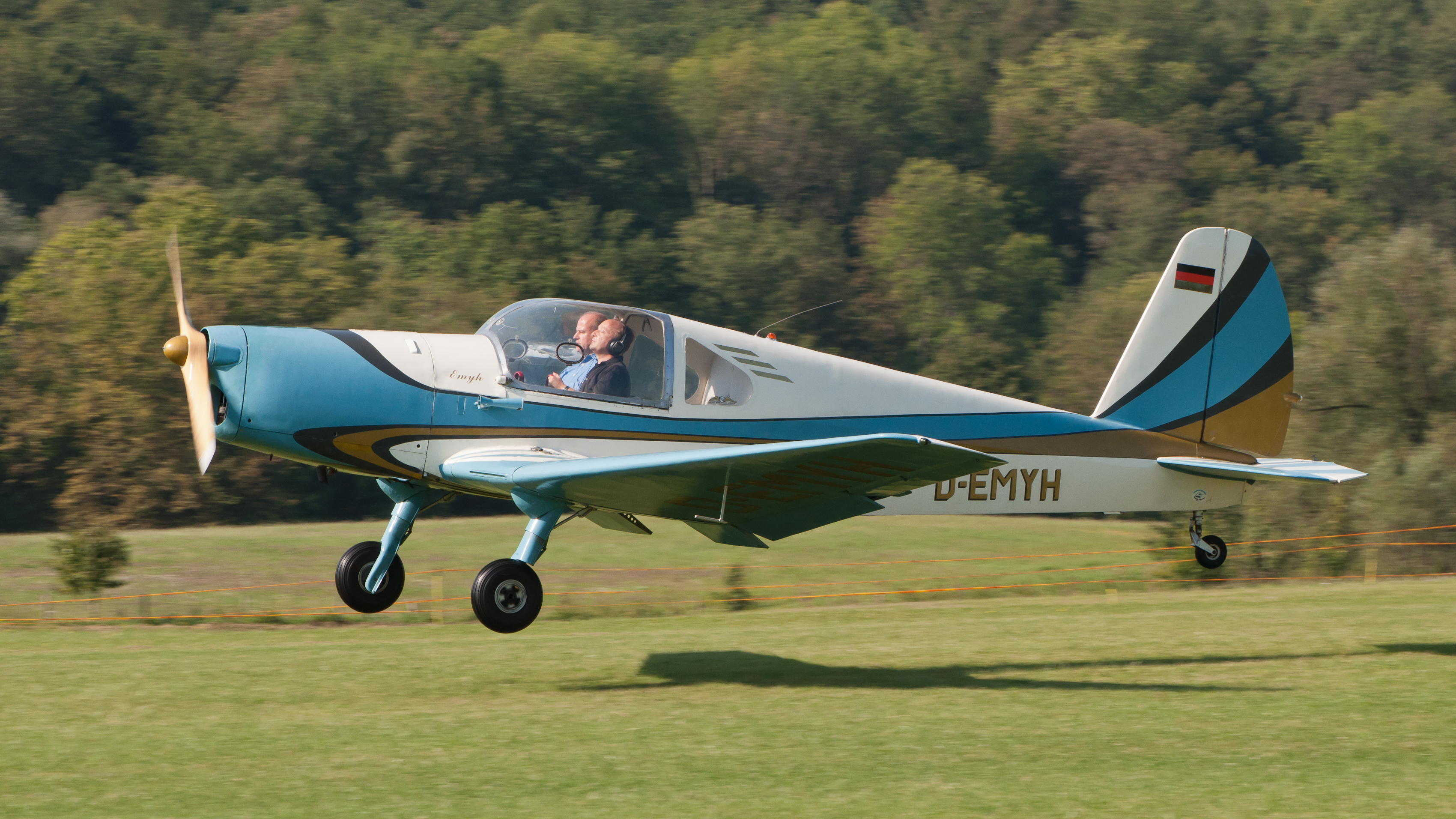 Orlican Sokol M1D (reg. D-EMYH, cn 350A, built in 1949).